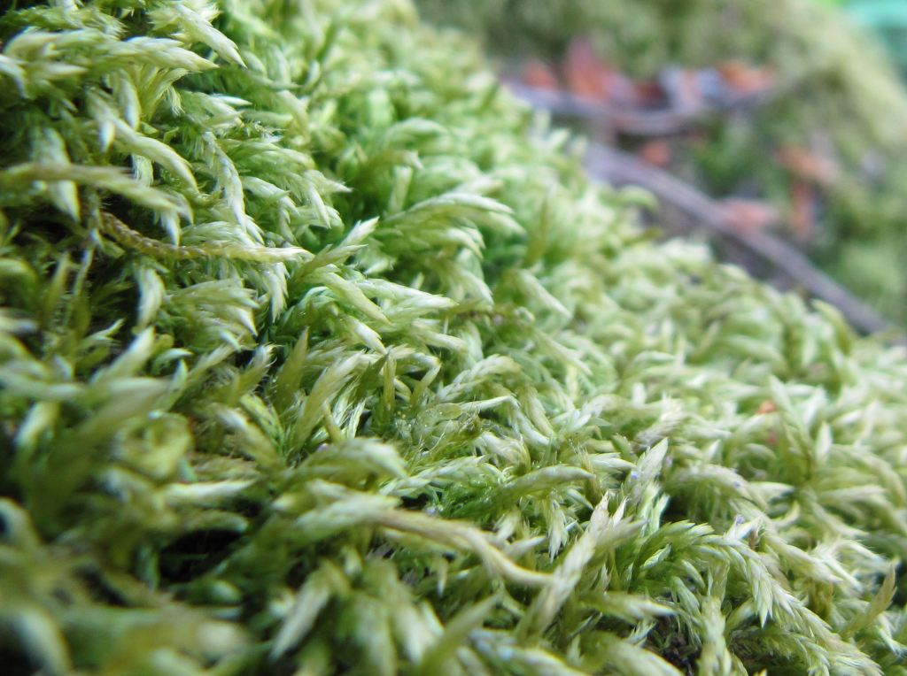 The moss Isothecium myurum at the base of ash (Fraxinus excelsior) in the city of Odense, Denmark